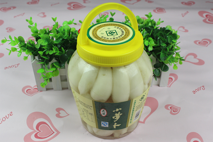 赤溪小萝卜